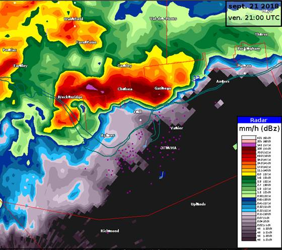 Cappi of radar echoes at 1.5 km altitude at 2100 UTC on September 21, 2018. It shows the hook echo associated with the EF-3 tornado in Gatineau, Québec, Canada, on the right side of the thunderstorm cell.